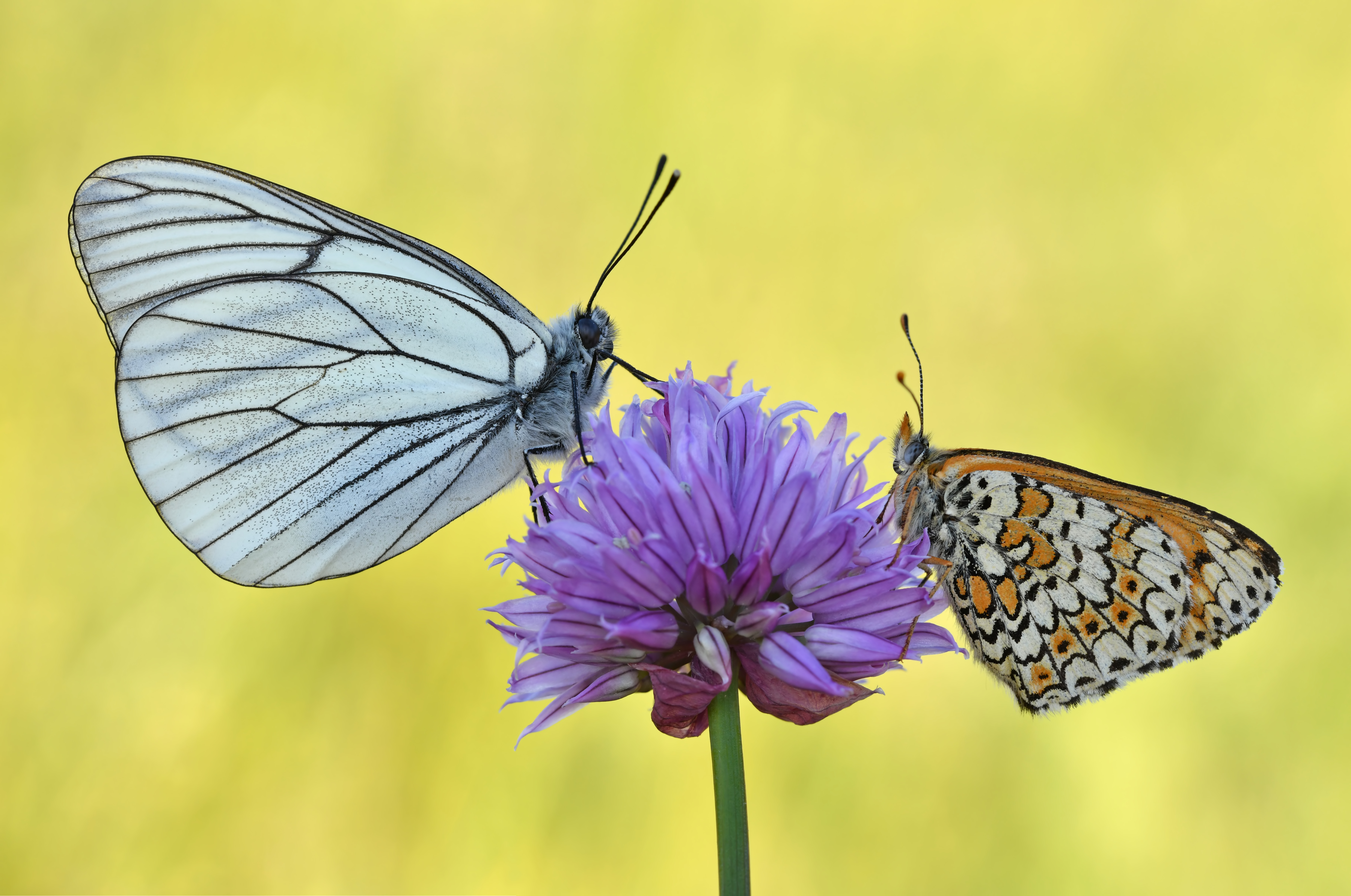 Black-veined white and glanville fritillary on a chives flower (Allium schoenoprasum).